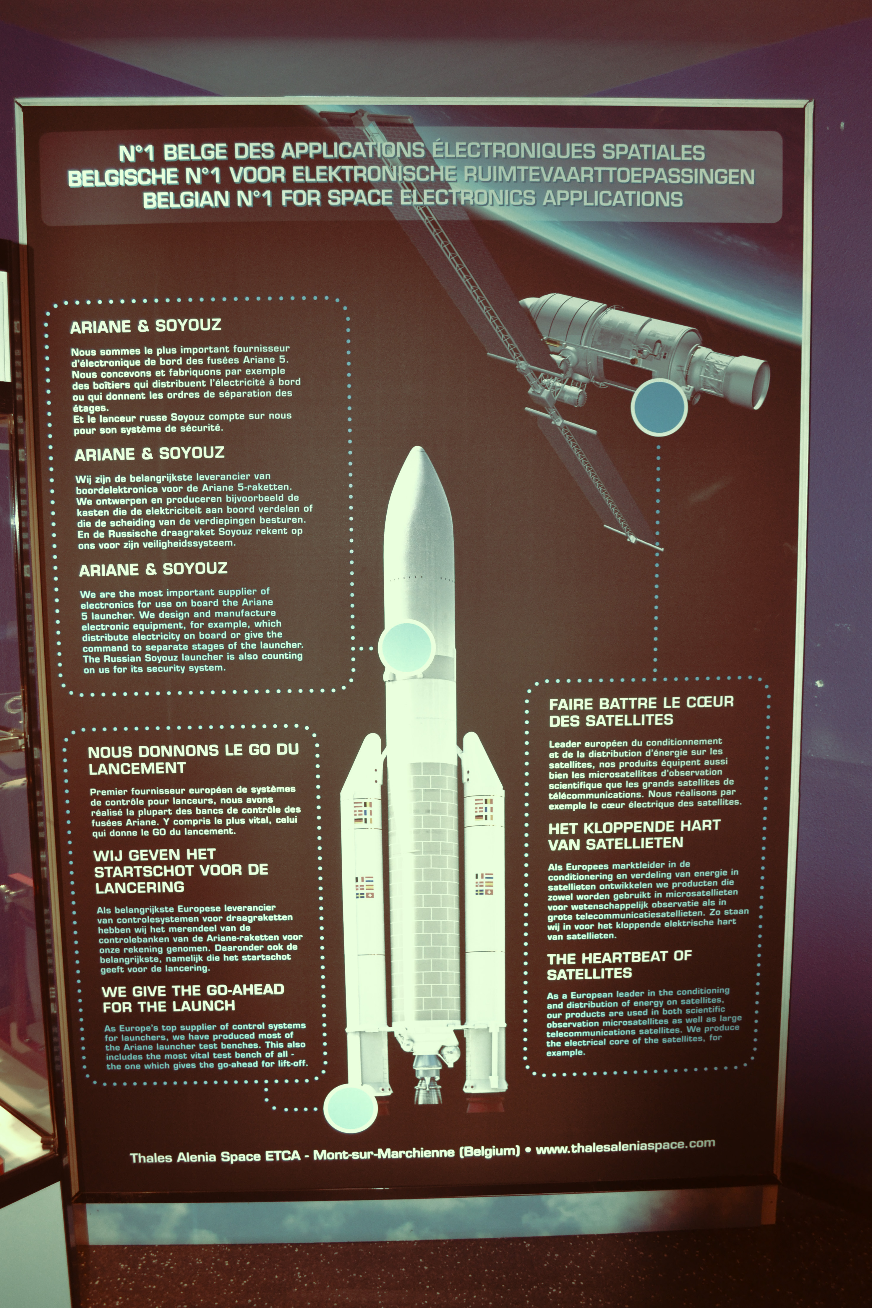 Belgian components produced for the Ariane 5 European heavy-lift launch vehicle explained at the Euro Space Center i Belgium i 3 languages 1. French, 2. Dutch 3. English